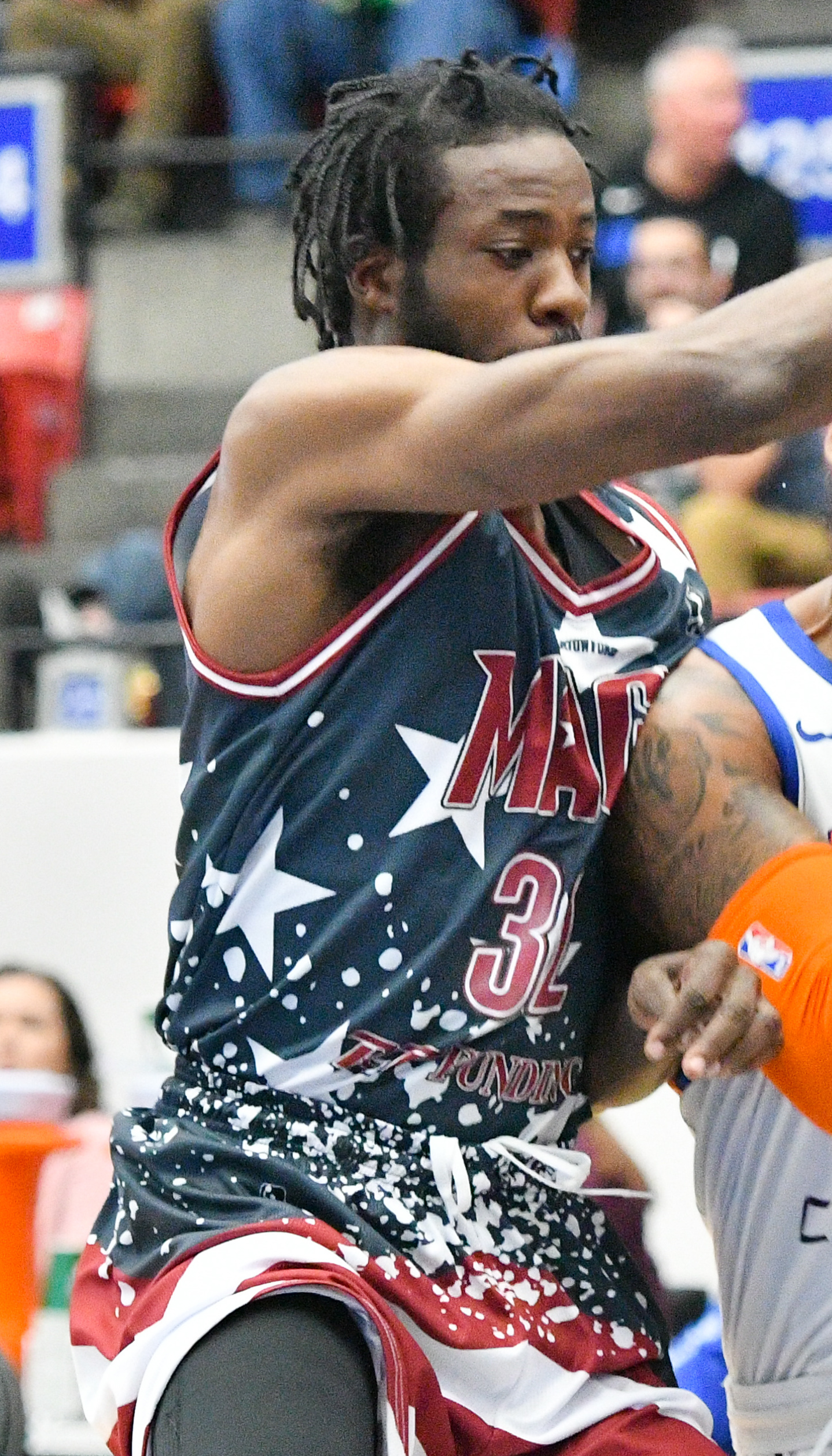 Isaiah Armwood, JJ Moore. Lakeland Magic vs Westchester Knicks. RP Funding Center. Lakeland, Fla. Jan. 11, 2020. (Photo by Tom Hagerty.)